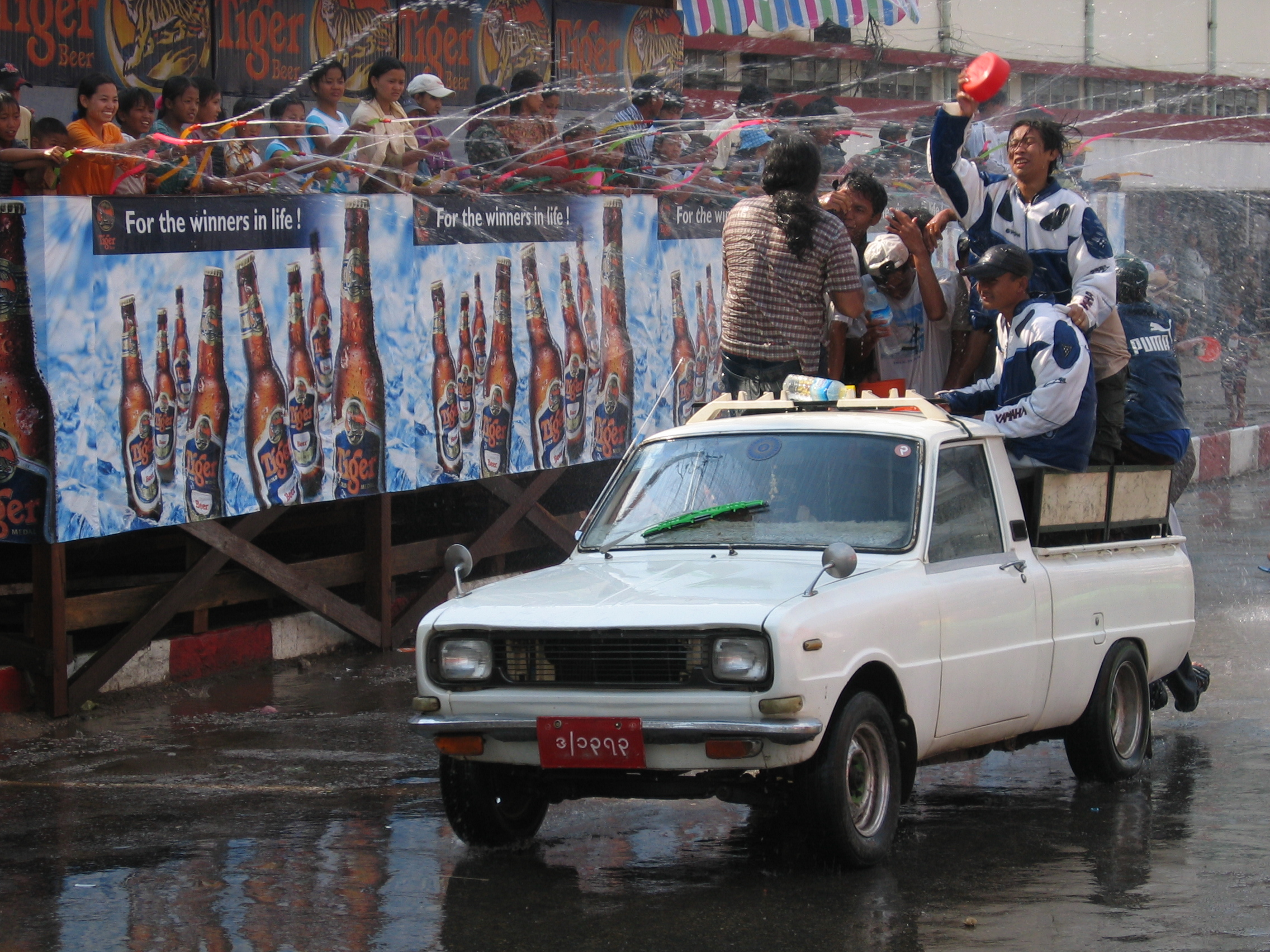 A pickup truck full of revelers is doused with water on the streets of Taunggyi, Myanmar during the annual Thingyan festival.